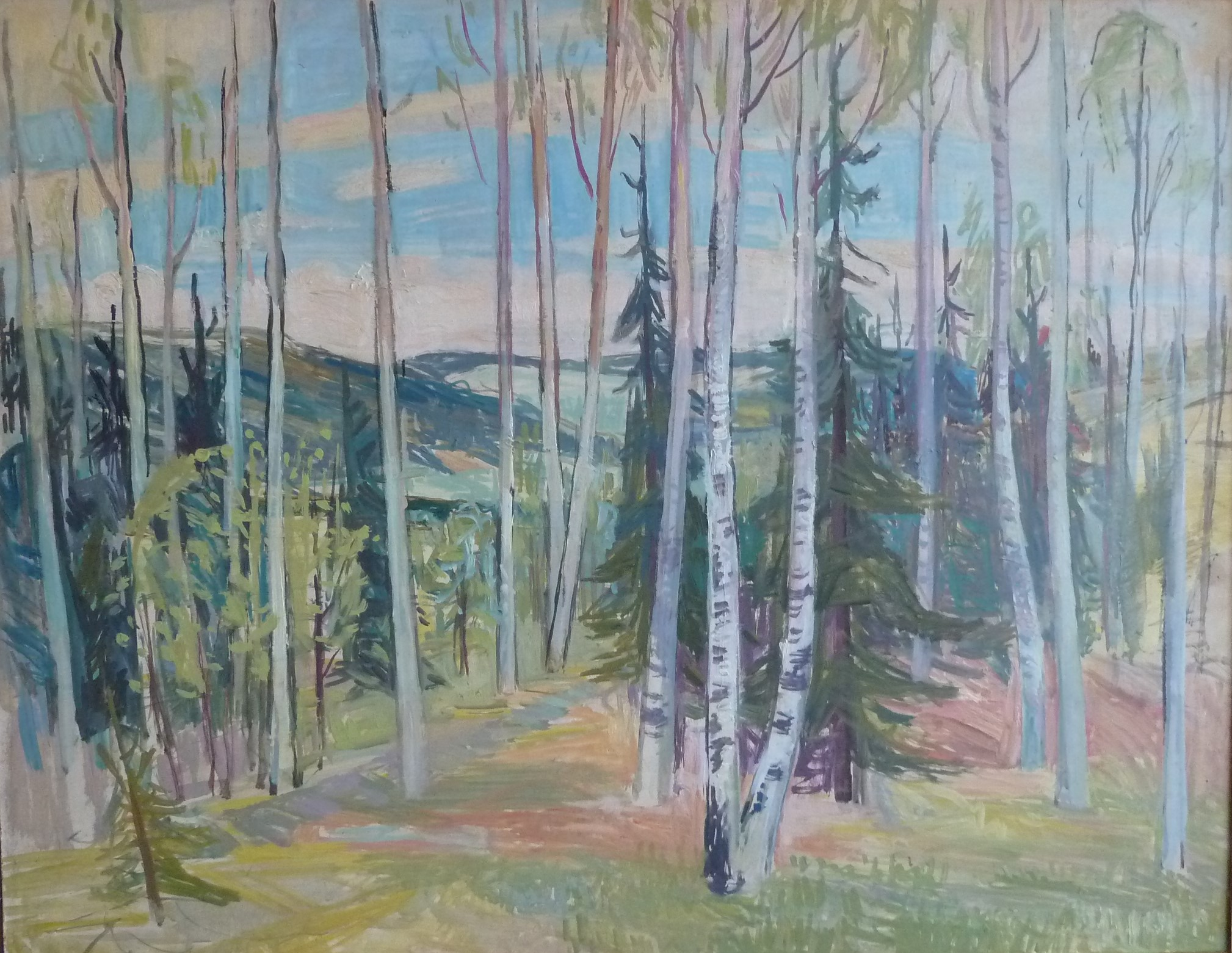 Granheim Sanatorium